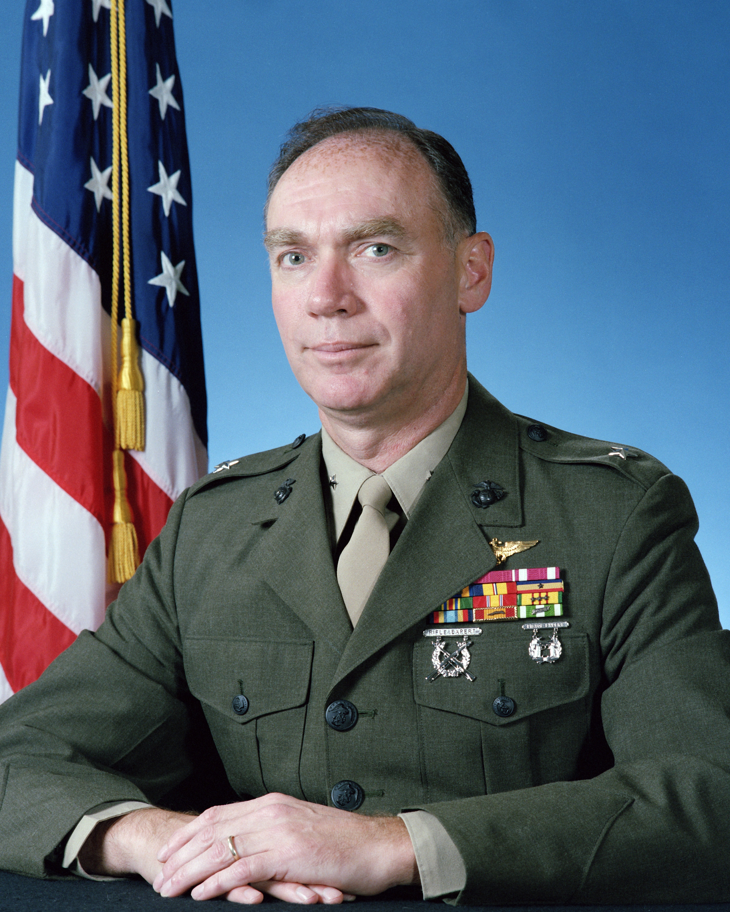 BG Harold Blot, USMC